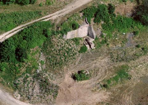 Csabrendek, alcsabi templomrom, Hungary, aerial photography